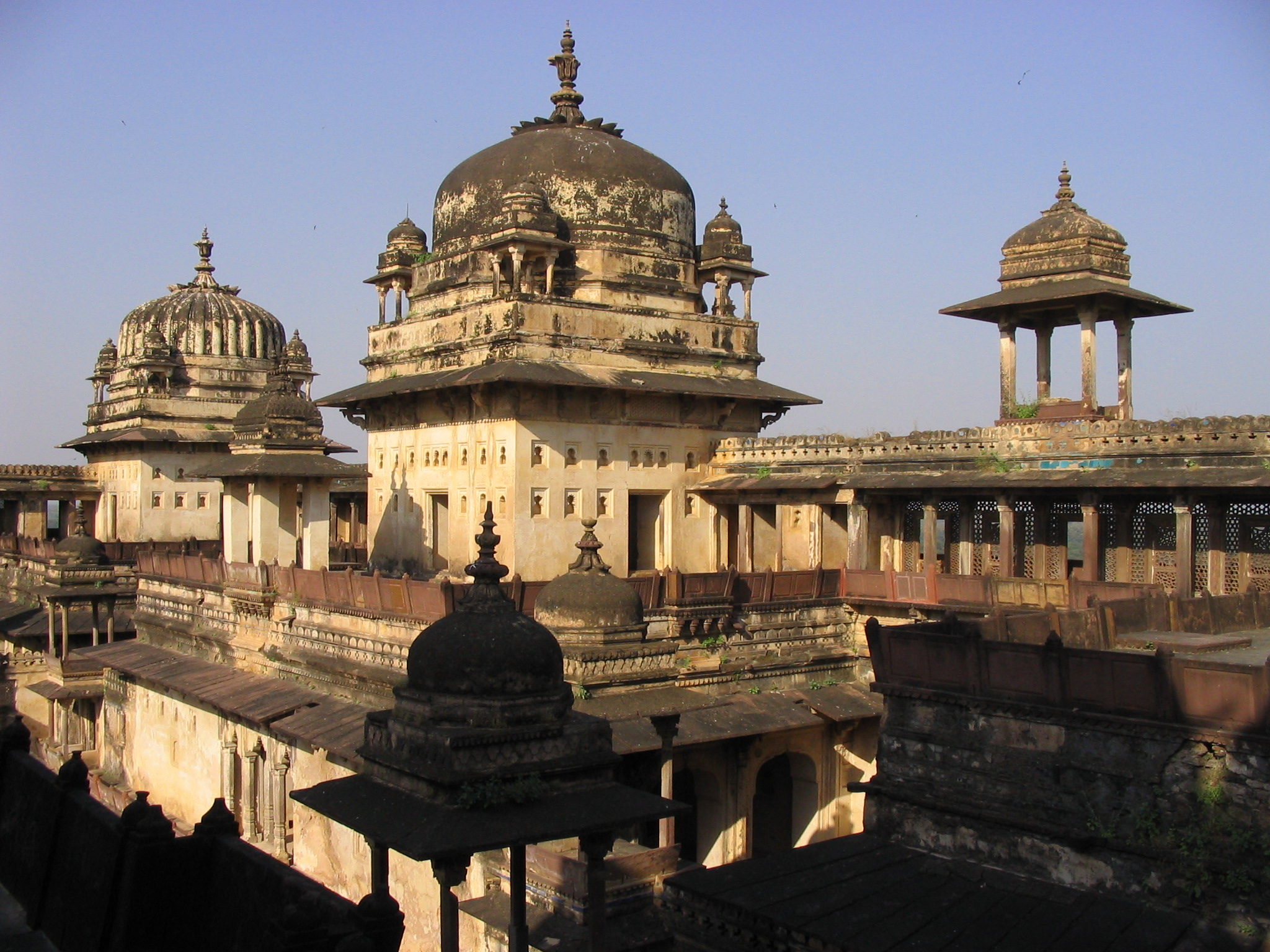 Orchha (or Urchha) is a small village in Tikamgarh district of Madhya Pradesh state, India. Orchha lies on the Betwa River, 15 km. from Jhansi in Uttar Pradesh. This picture shows Jahangir Mahal.